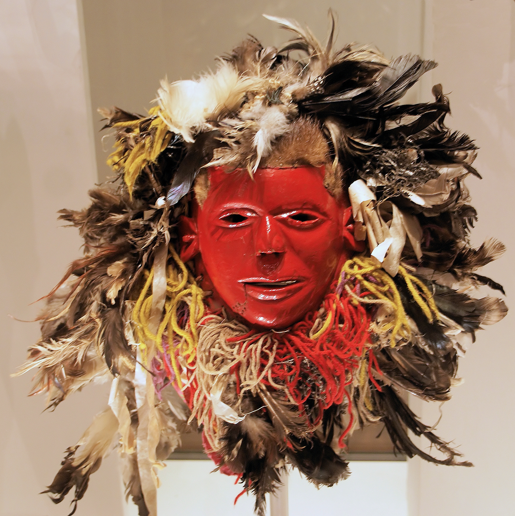 British Museum reference Af1993,09.21 Detailed description Human face-shaped mask (simoni or mbalangwe) for Nyau masquerade. Wood, paint, feathers, fur a. o. materials. Chewa/Cewa, Malawi. Late 20th century. Location Room 25